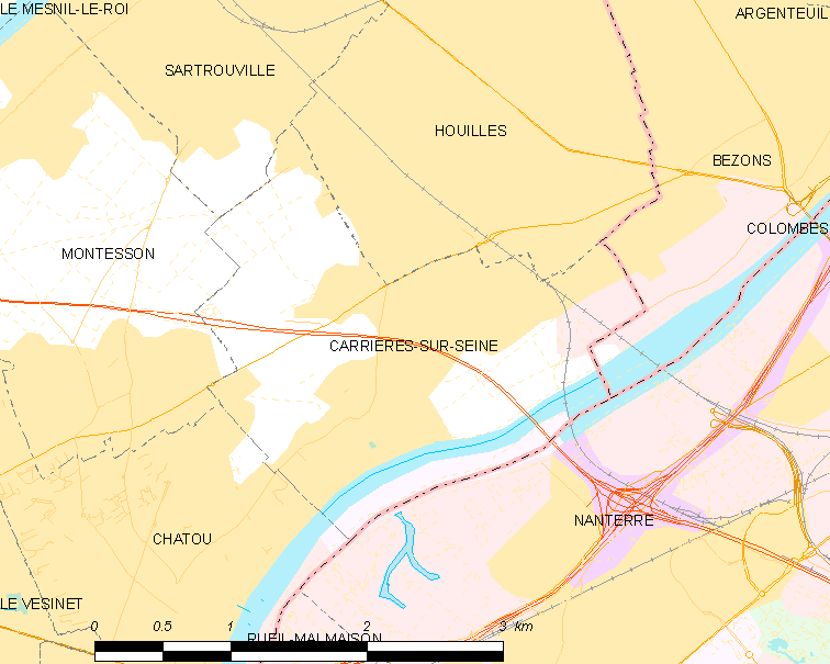 Map of French municipality Carrières-sur-Seine